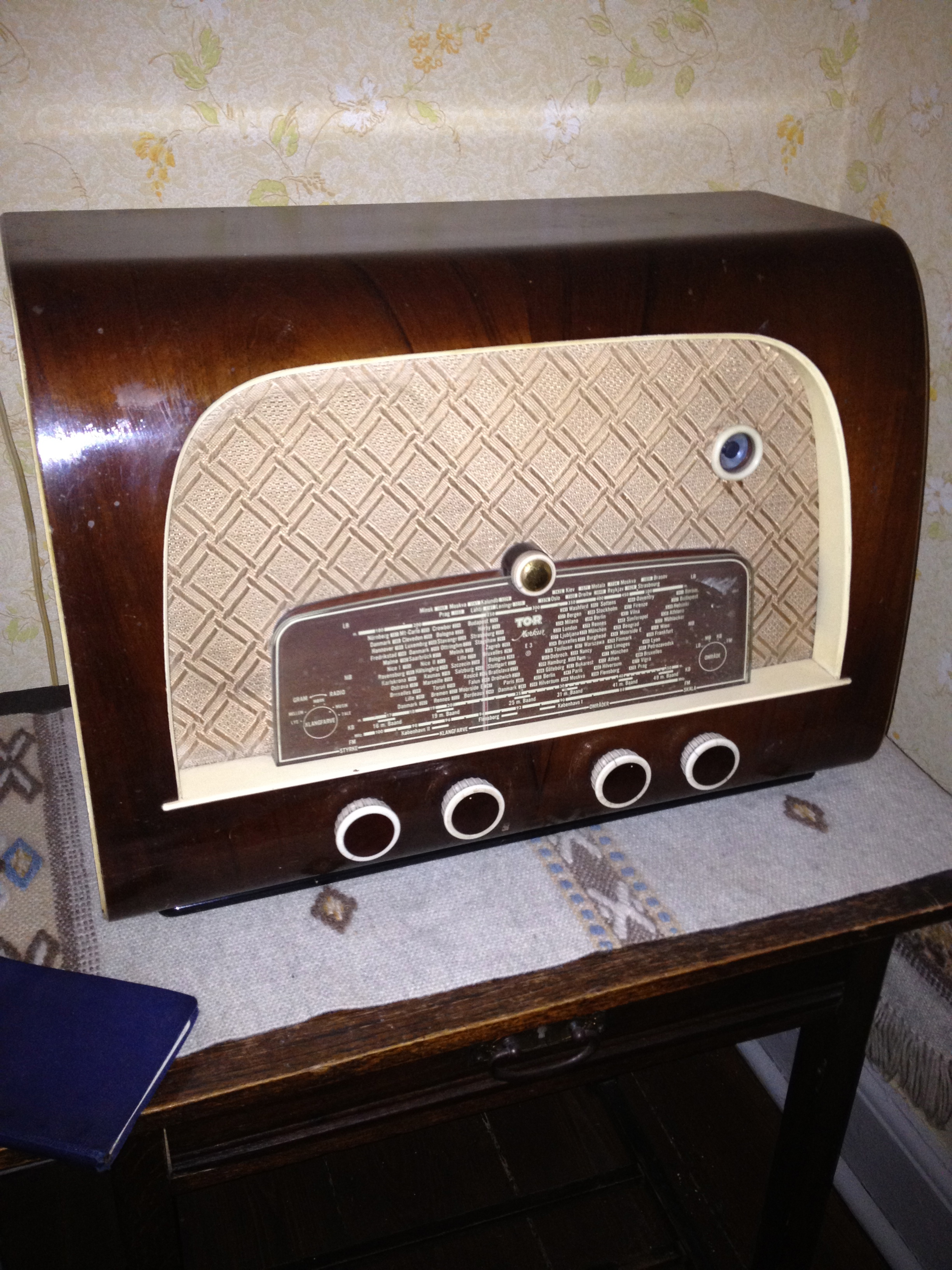 Details from the worker's home set up at Brede Værk in Building 20 "Den lange længe".